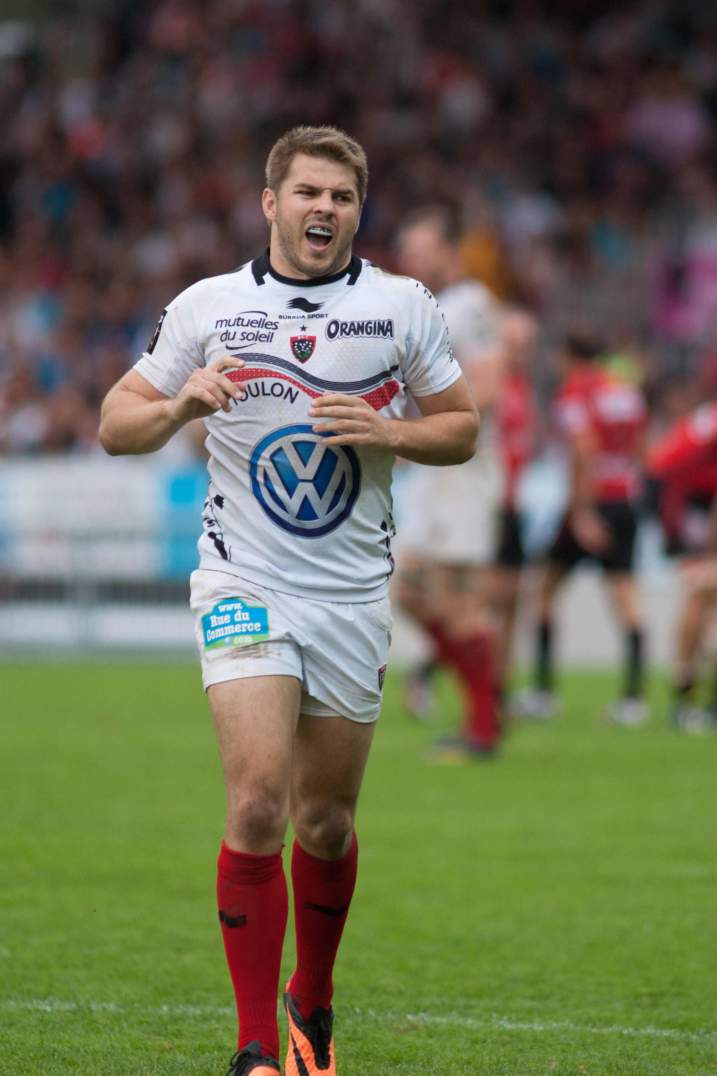 The making of this document was supported by Wikimedia CH. (Submit your project!) For all the files concerned, please see the category Supported by Wikimedia CH. US Oyonnax - Rugby club toulonnais, 28th September 2013